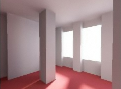 Radiosity scene, cropped from Image:Radiosity Comparison.jpg